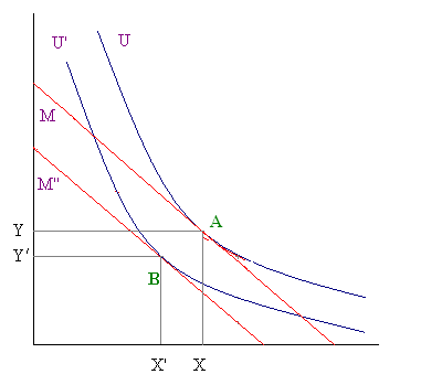 A graphic shows the income effect of changes in purchasing power on demand quantity.